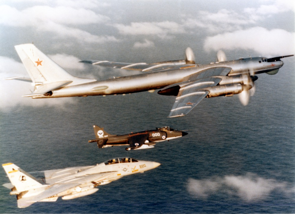 PictionID: 42253034 - Title:British Aerospace Sea Harrier British Aerospace Sea Harrier in formation with Tupolev Tu-95 and Grumman F-14 *Catalog: � Filename: � --- Image from the Charles Daniels Photo Collection ----PLEASE TAG this image with any information you know about it, so that we can permanently store this data with the original image file in our Digital Asset Management System.----SOURCE INSTITUTION: San Diego Air and Space Museum Archive